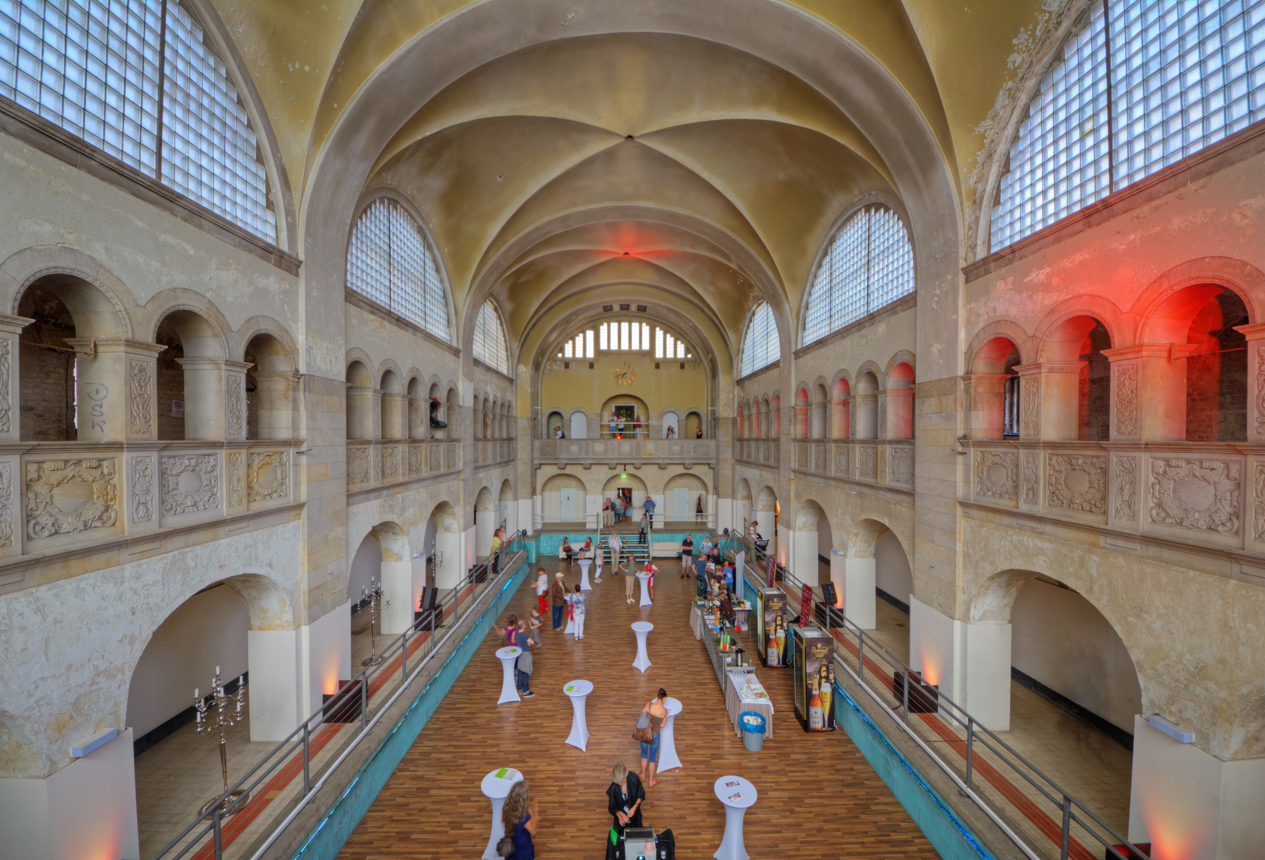 Berlin-Prenzlauer Berg. Interior of the listed swimming hall at Oderberger Straße.